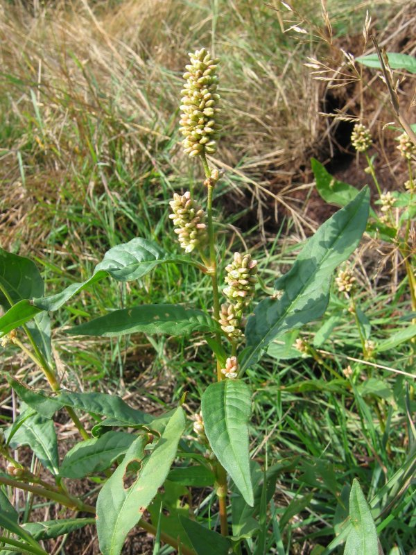 Ampfer-Knöterich (Persicaria lapathifolia)